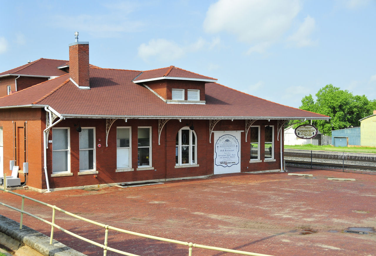 The historic former Santa Fe depot and Harvey House restaurant — in Guthrie, Oklahoma. Now housing an automobile and model railway museum. The two-story red brick station was built in 1903.